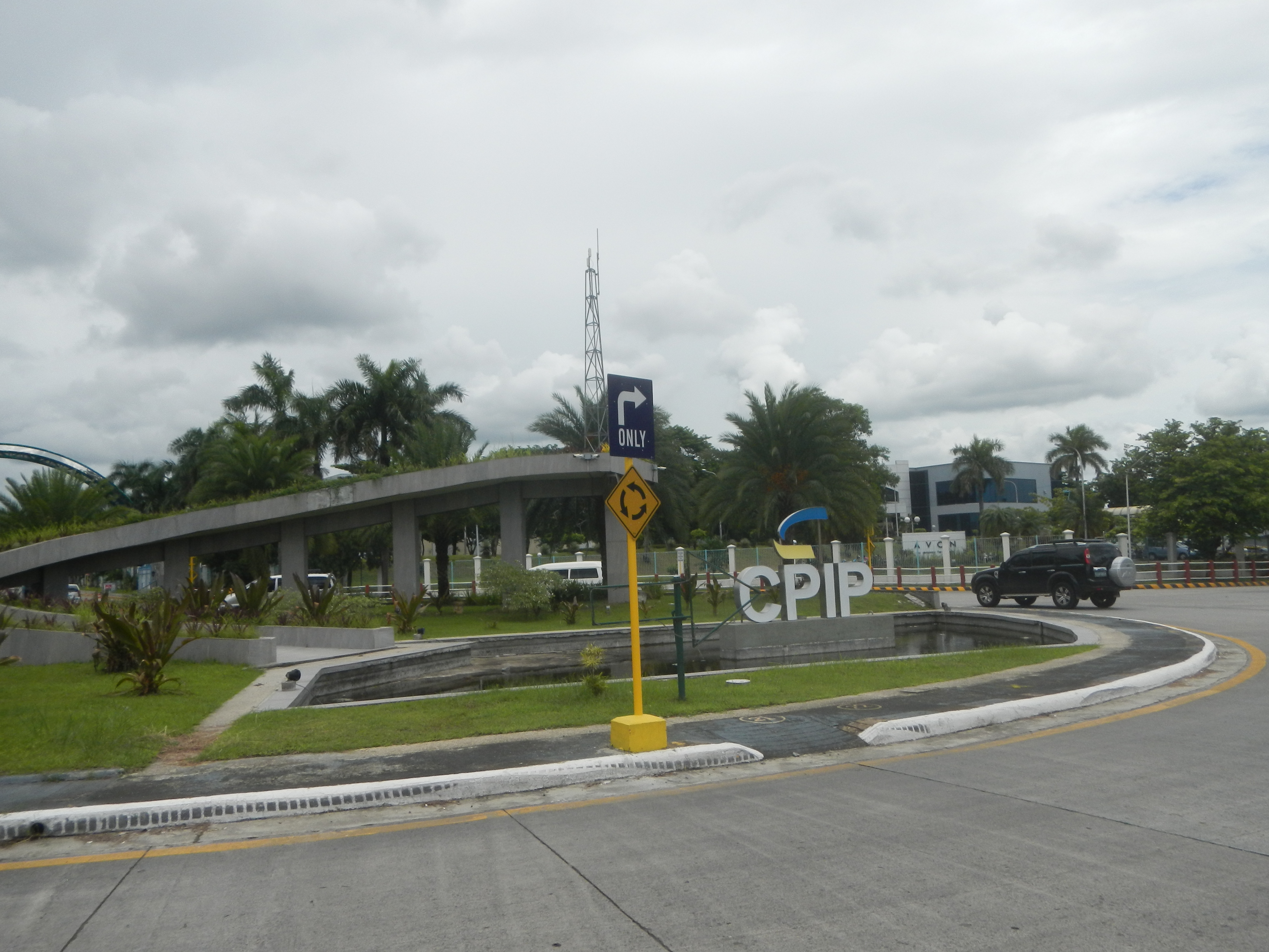 Calamba Premiere International Park List of barangays in Laguna (province) Category:Barangays of Calamba, Laguna Barangays Batino Batino 14°12'12"N 121°7'56"E Barandal 14°11'17"N 121°7'49"E BarandalBarandal Prinza, Calamba City 14.2020, 121.1393 Calamba, Laguna from Mayapa accessed from South Luzon Expressway to National Highway (Calamba Poblacion-Mayapa) of Maharlika Highway (Calamba City section) Pan-Philippine Highway Philippine highway network (Note: Judge Florentino Floro, the owner, to repeat, Donor Florentino Floro of all these photos hereby donate gratuitously, freely and unconditionally Judge Floro all these photos to and for Wikimedia Commons, exclusively, for public use of the public domain, and again without any condition whatsoever).